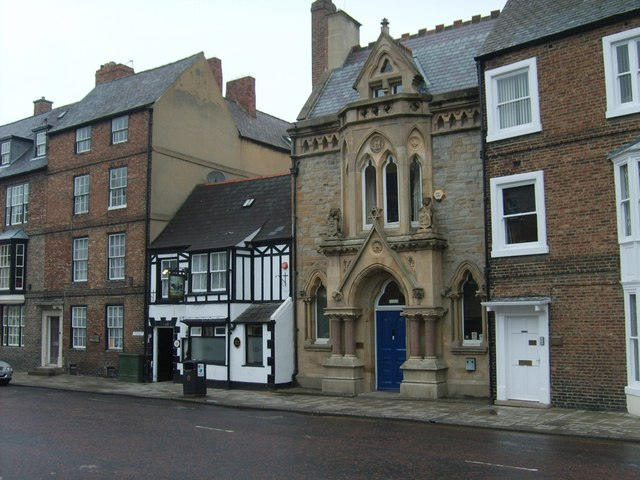 Durham Masonic Hall The Hall stands in Old Elvet Road next to the Dun Cow Pub.